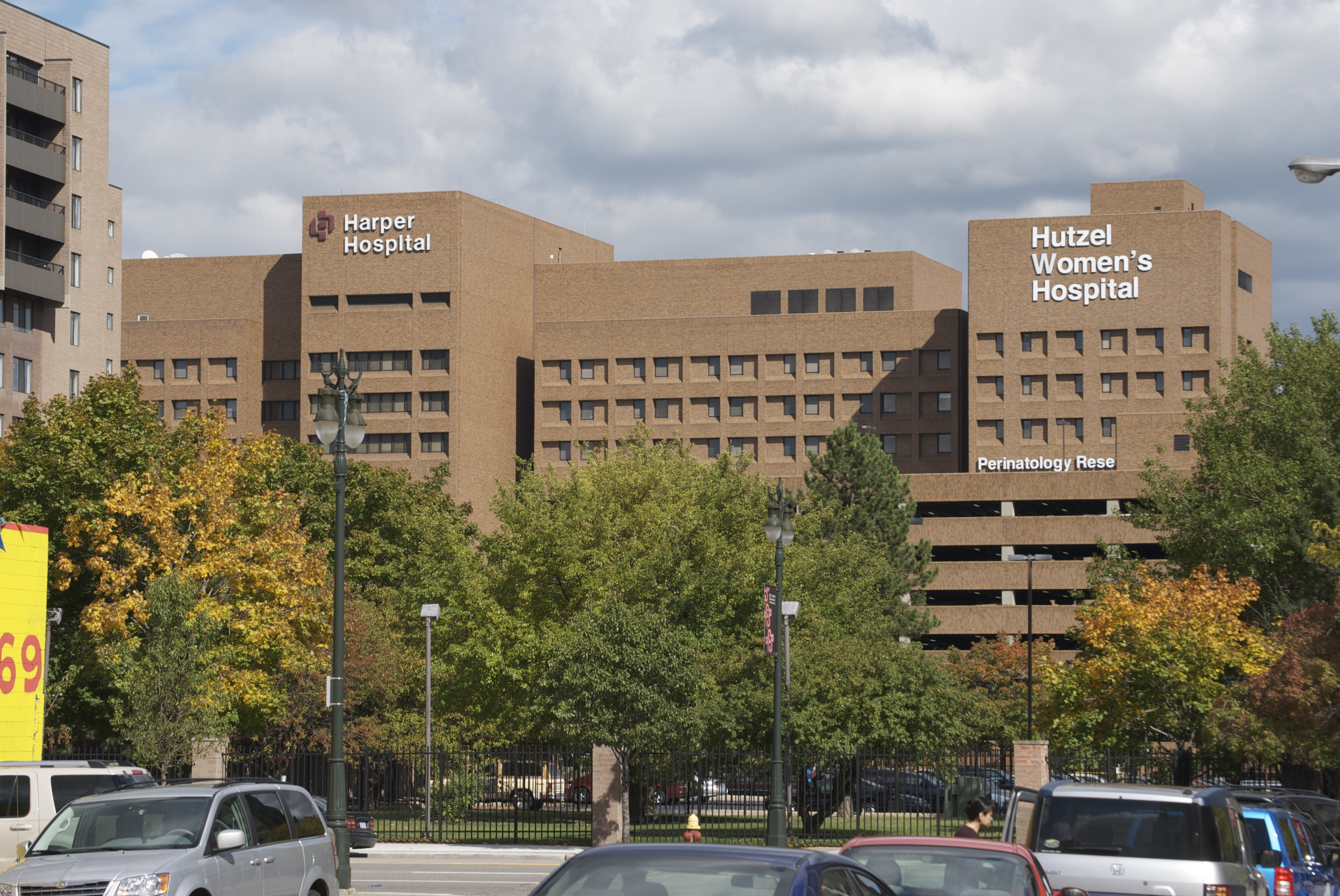 View of Detroit Medical Center, Harper Hospital and Hutzel Woman's Hospital